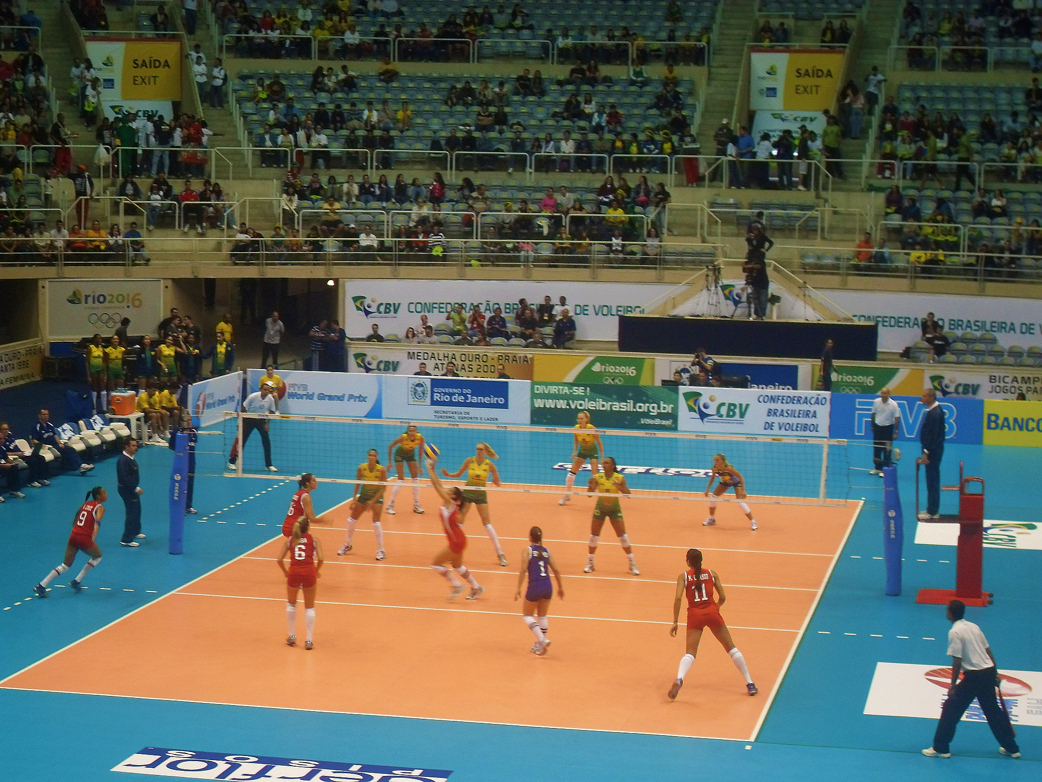 match Brazil vs. Puerto Rico at the Volleyball World Grand Prix 2009 in Rio de Janeiro